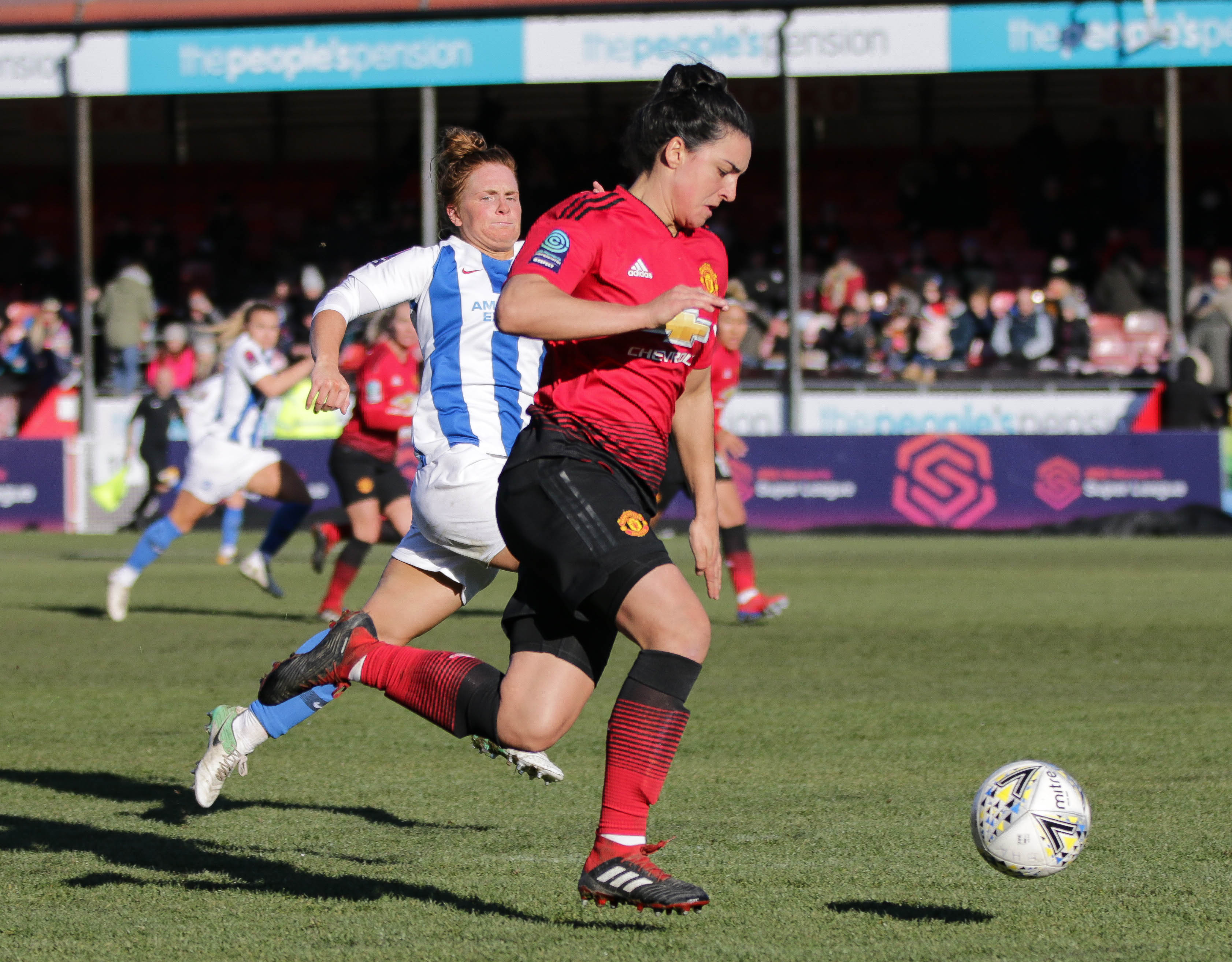 Gibbons, Sigsworth